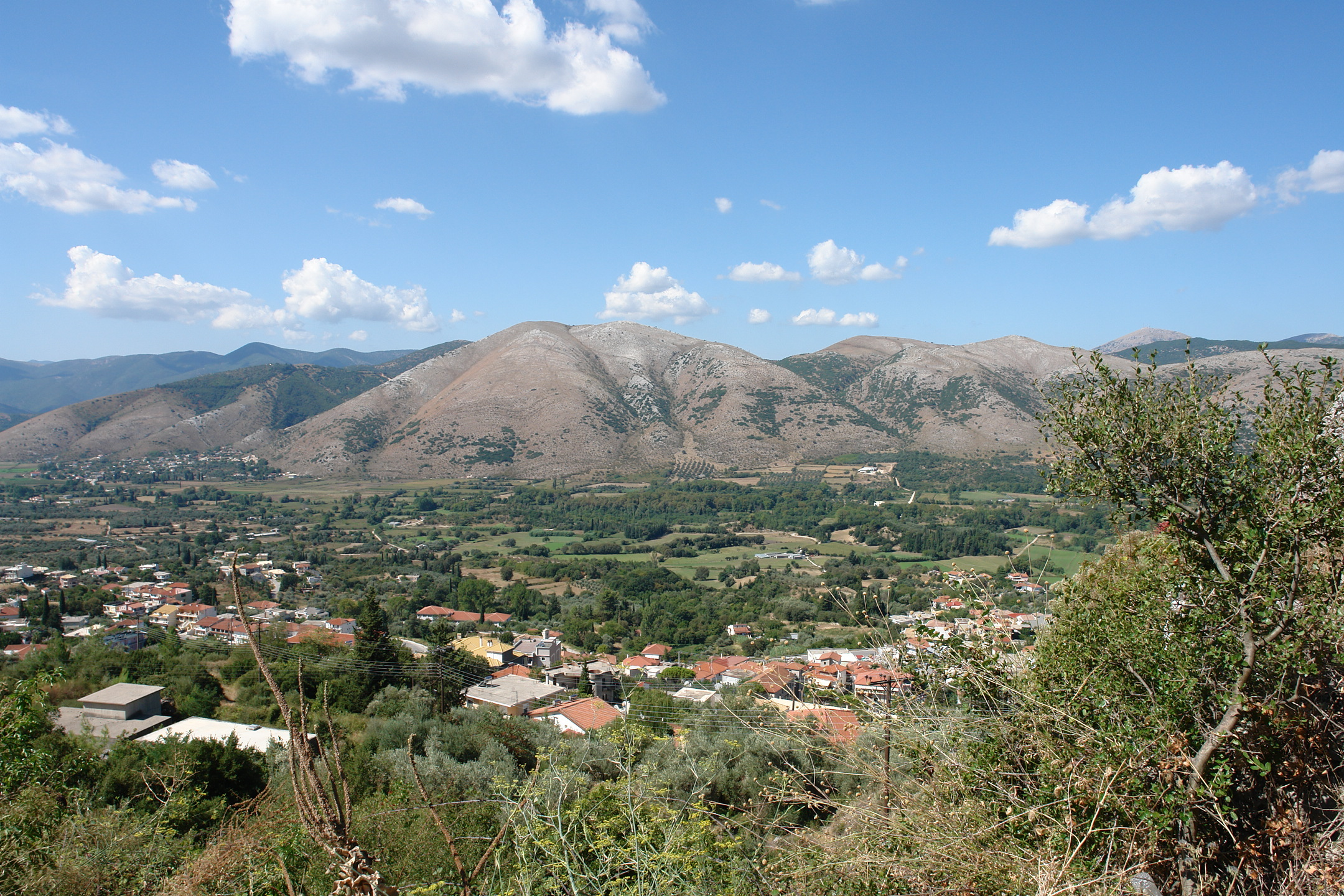 part of paramythia, greece